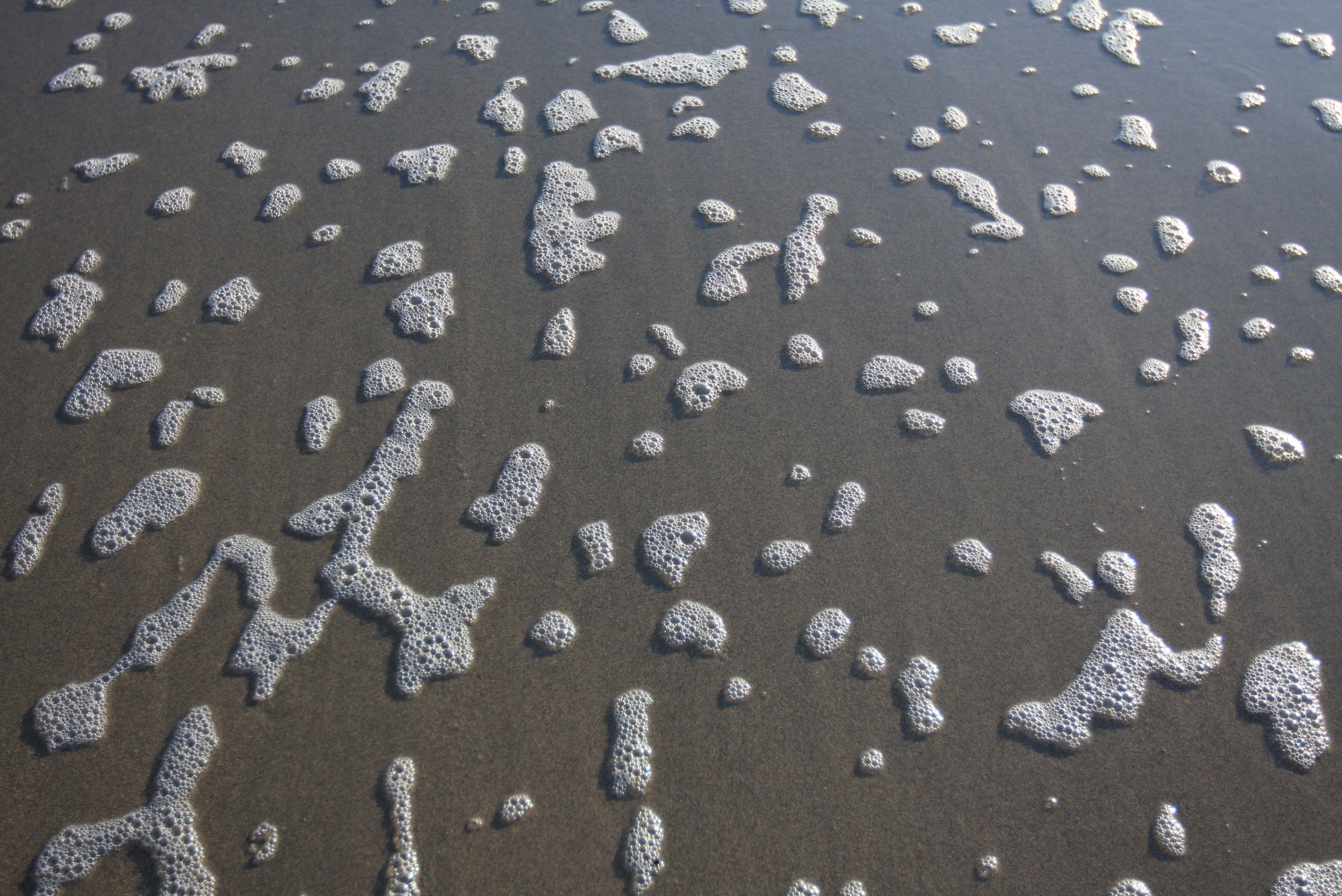 Foam disintegrating as wave retreats from sandy beach. Photo taken at Cove Beach, Año Nuevo State Reserve, San Mateo County, California, USA.